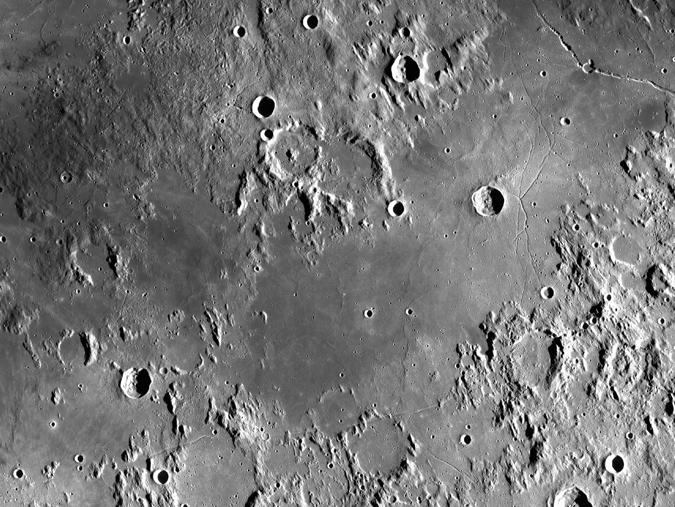 Sinus Medii on the Moon. Mosaic of photos by Lunar Reconnaissance Orbiter, made with Wide Angle Camera. Contrast is increased. Size of the image is 550×415 km, north is up.